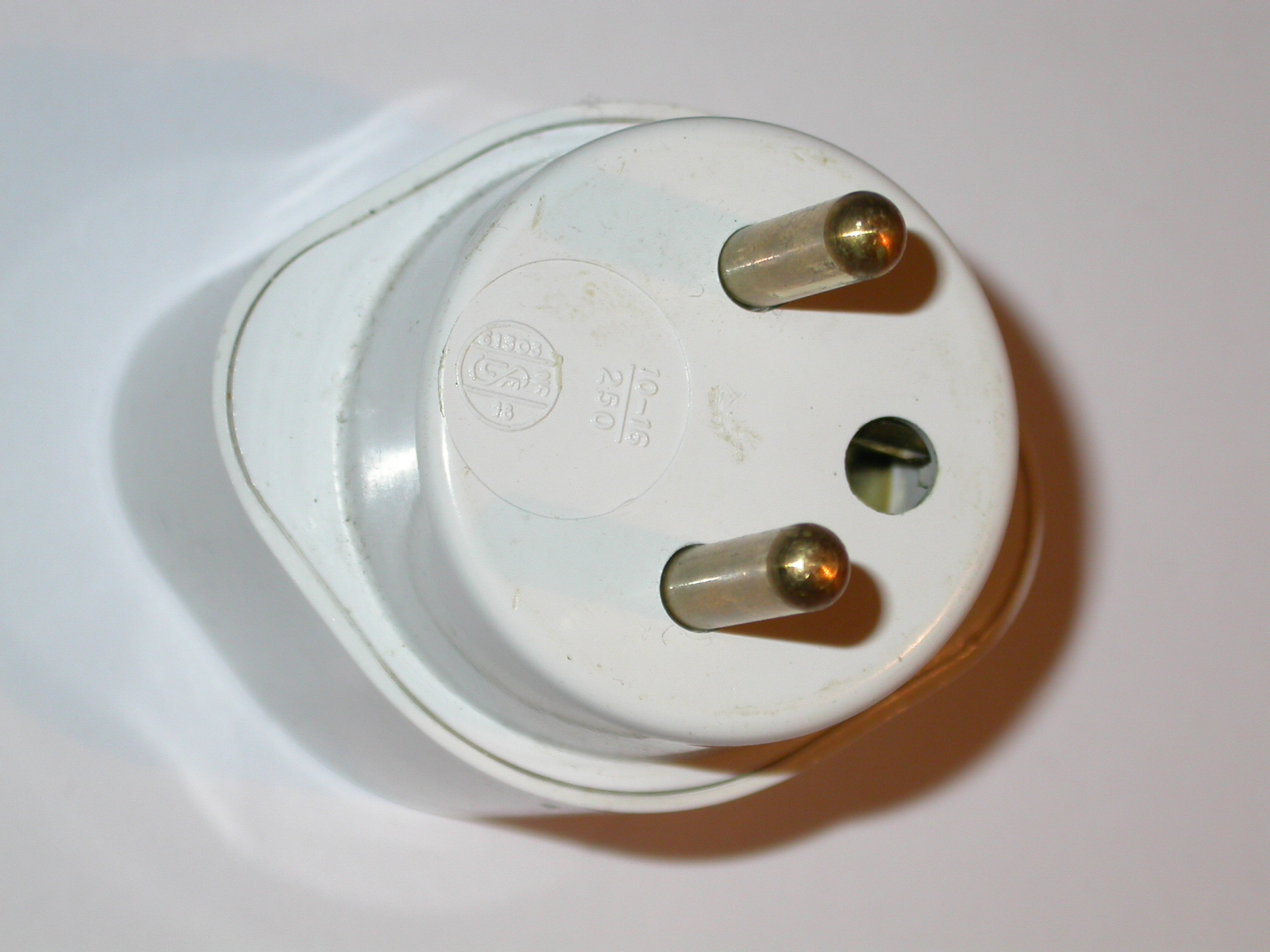 Pure French/Belgian power plug